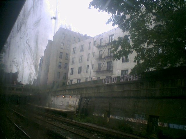 Passing the Parkside Avenue Stop of the Brighton Line of New York City Subway